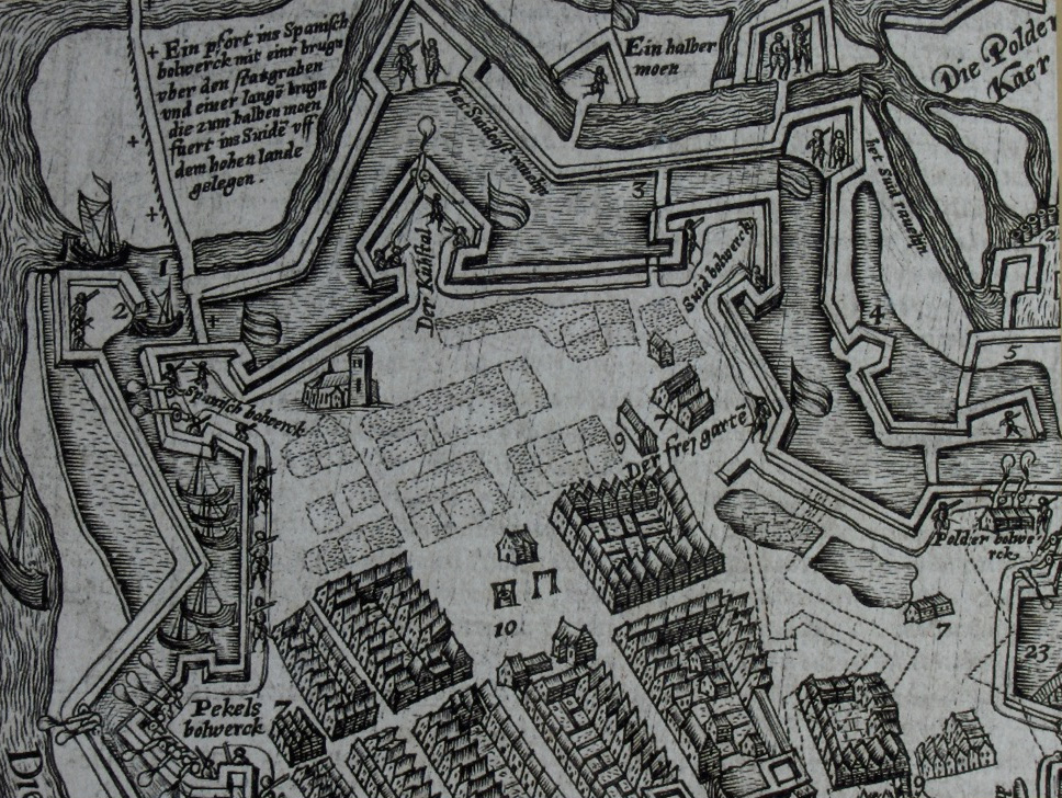 The siege of Ostend, Belgium (1601-1604); map of Ostend